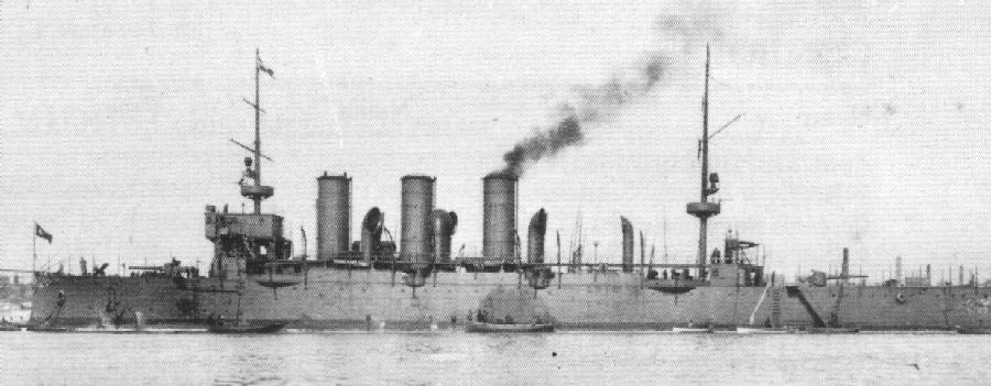 Ottoman cruiser Mecidiye, 1910.